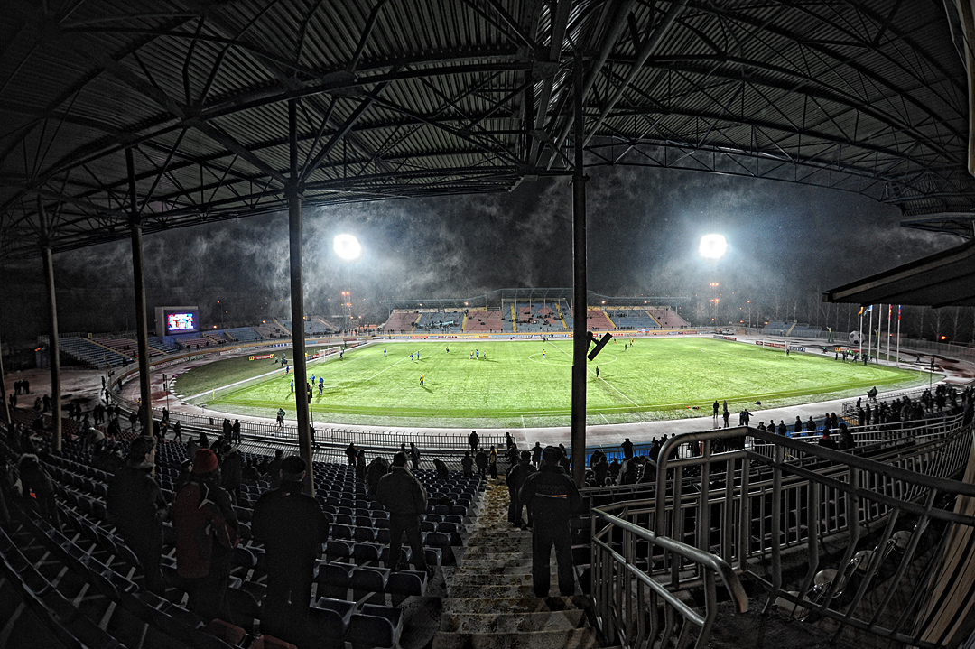 Illichivets Stadium in Mariupol, Donetsk Oblast, Ukraine